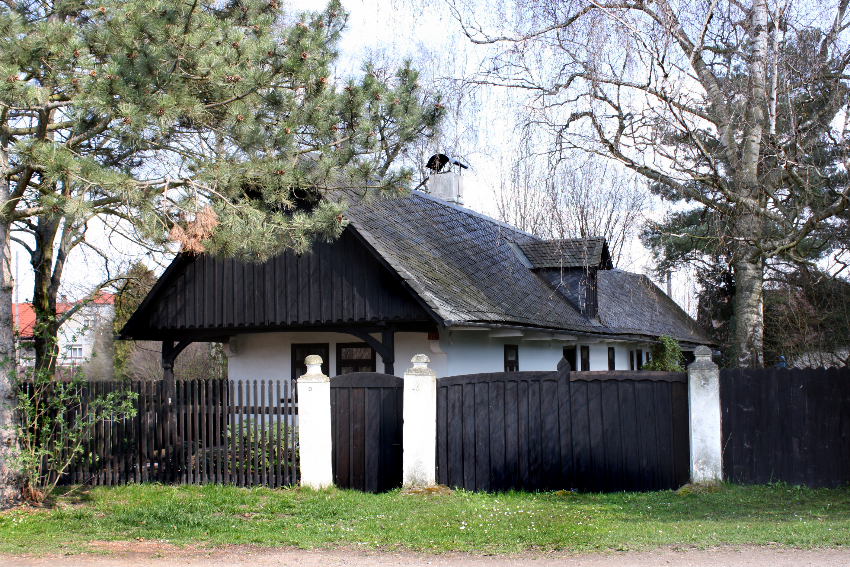 House No 22 Dubečno, part of Kněžice village, Czech Republic